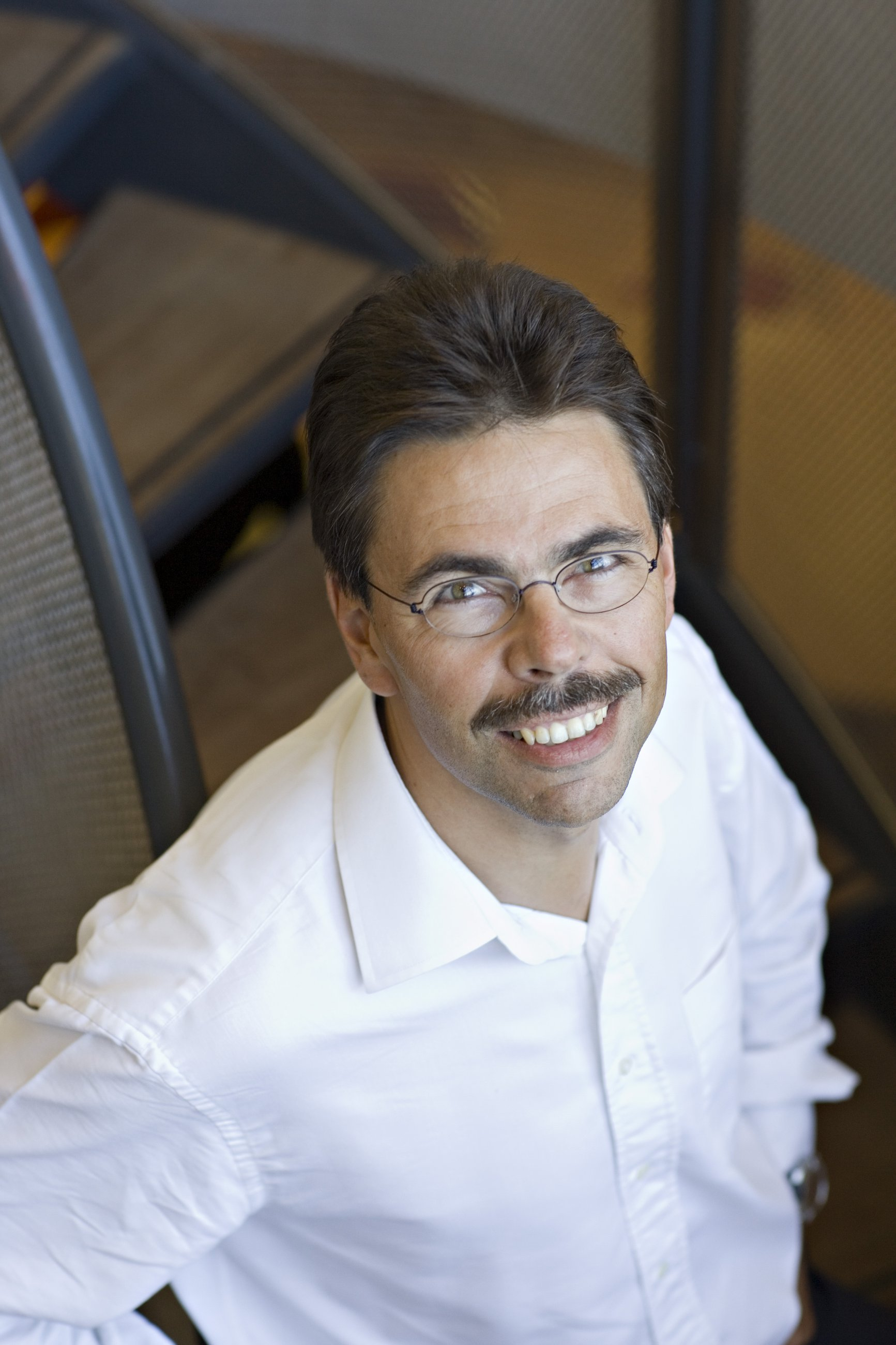 Dutch immunologist Carl Figdor (2006)